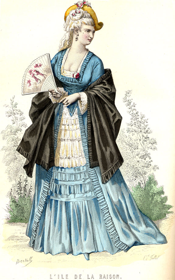 The Isle of Reason (1721) by Pierre de Marivaux (1688-1763)